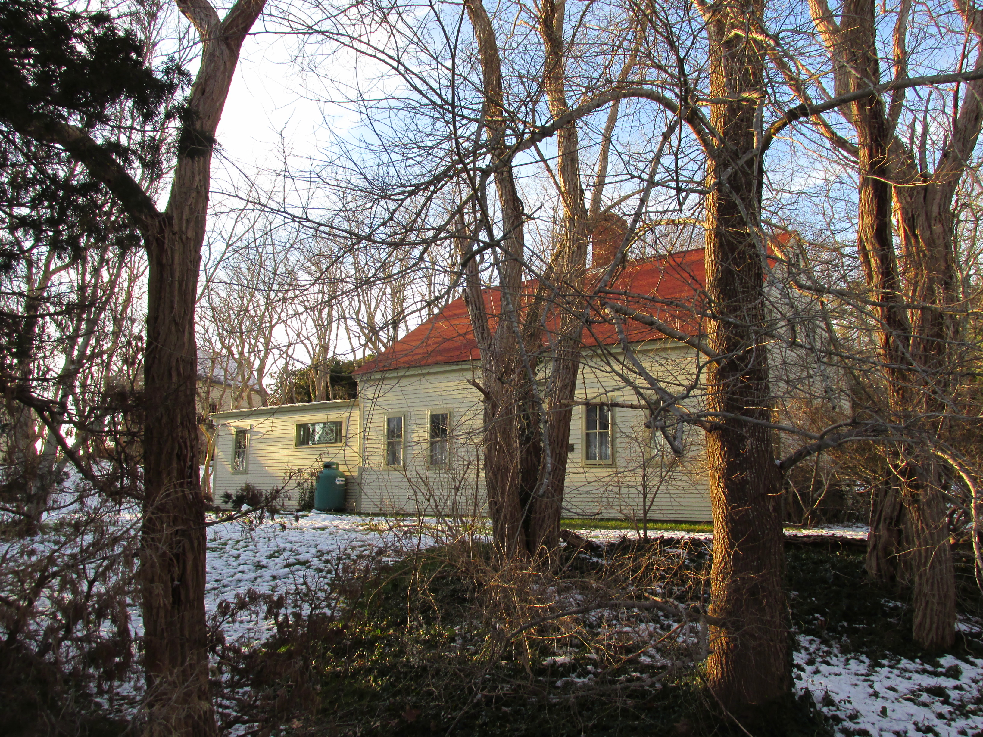 Townsend House, Wellfleet Massachusetts - MACRIS Listing